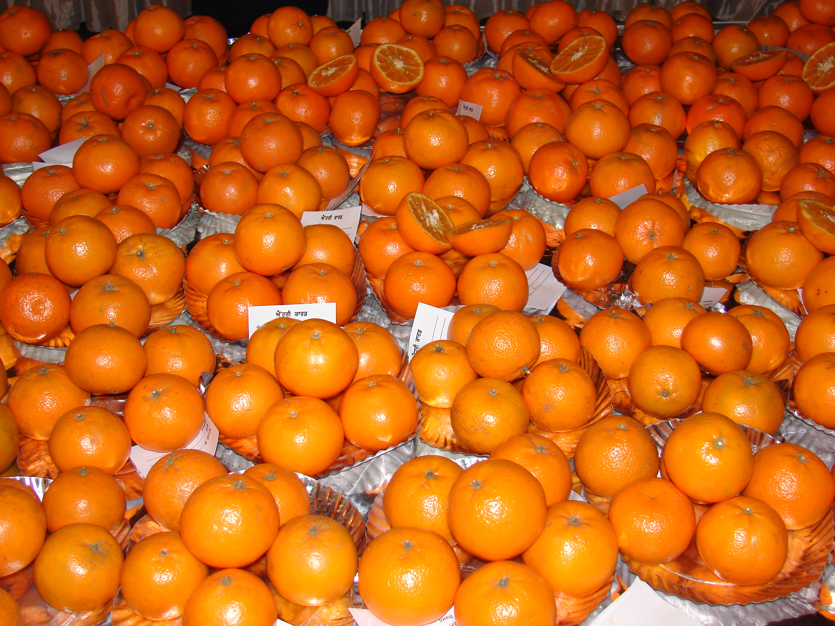 Kinnow fruits in citrus show at Punjab, India